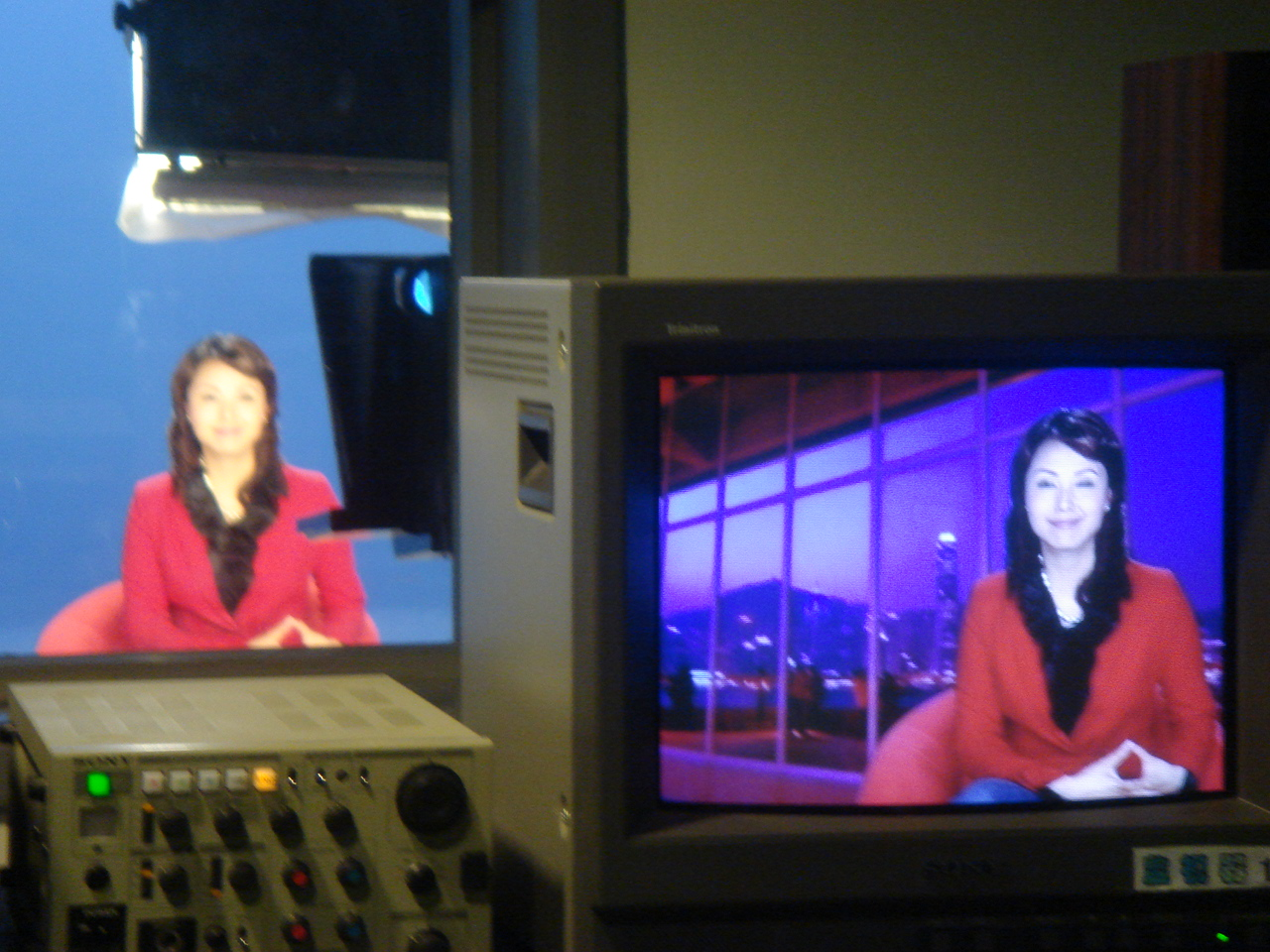 I took this picture when she was videotaping